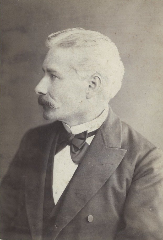 Numa Pompilio Llona in 1884